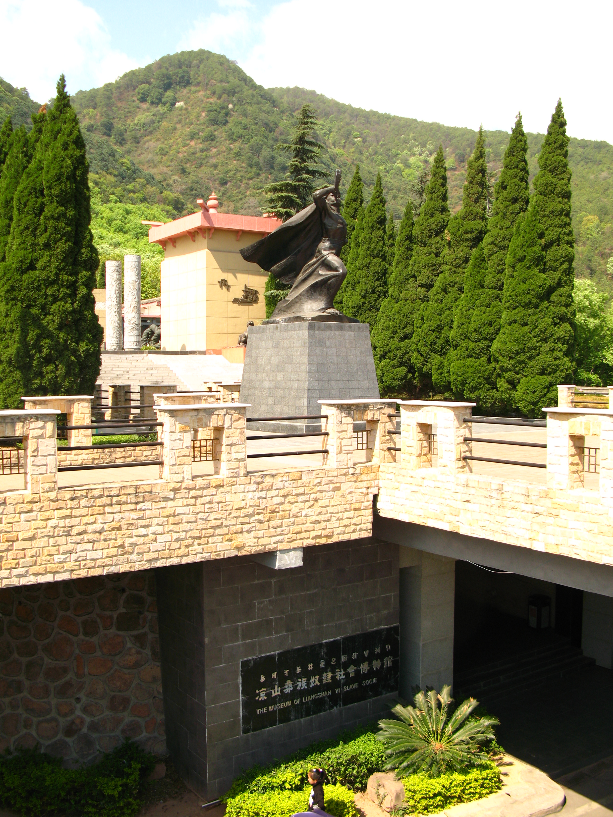 凉山彝族奴隶社会博物馆